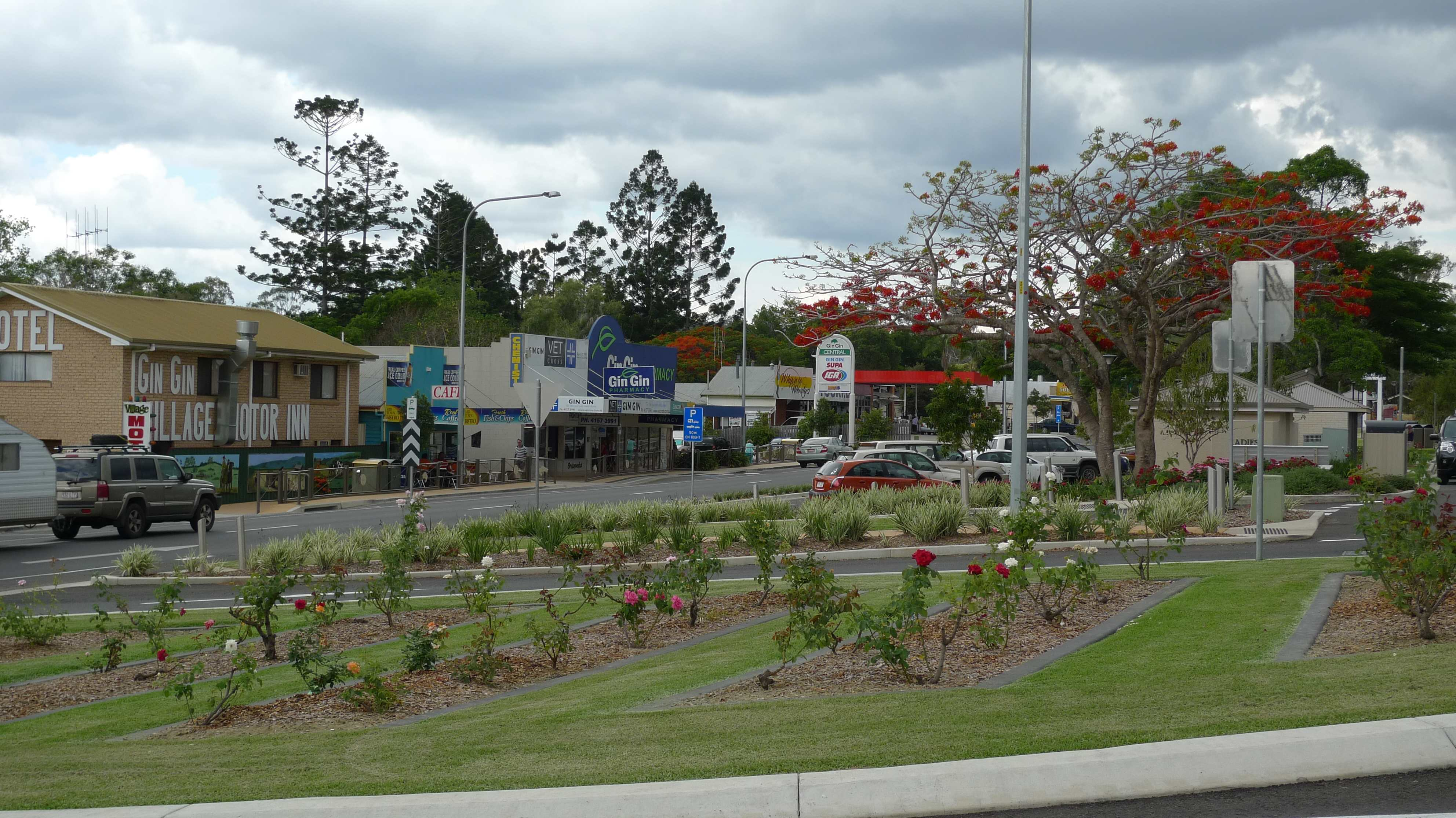 Gin Gin Today 01.12.11 3. The view is of the south bound lanes of the Bruce Highway where they pass through the CBD.